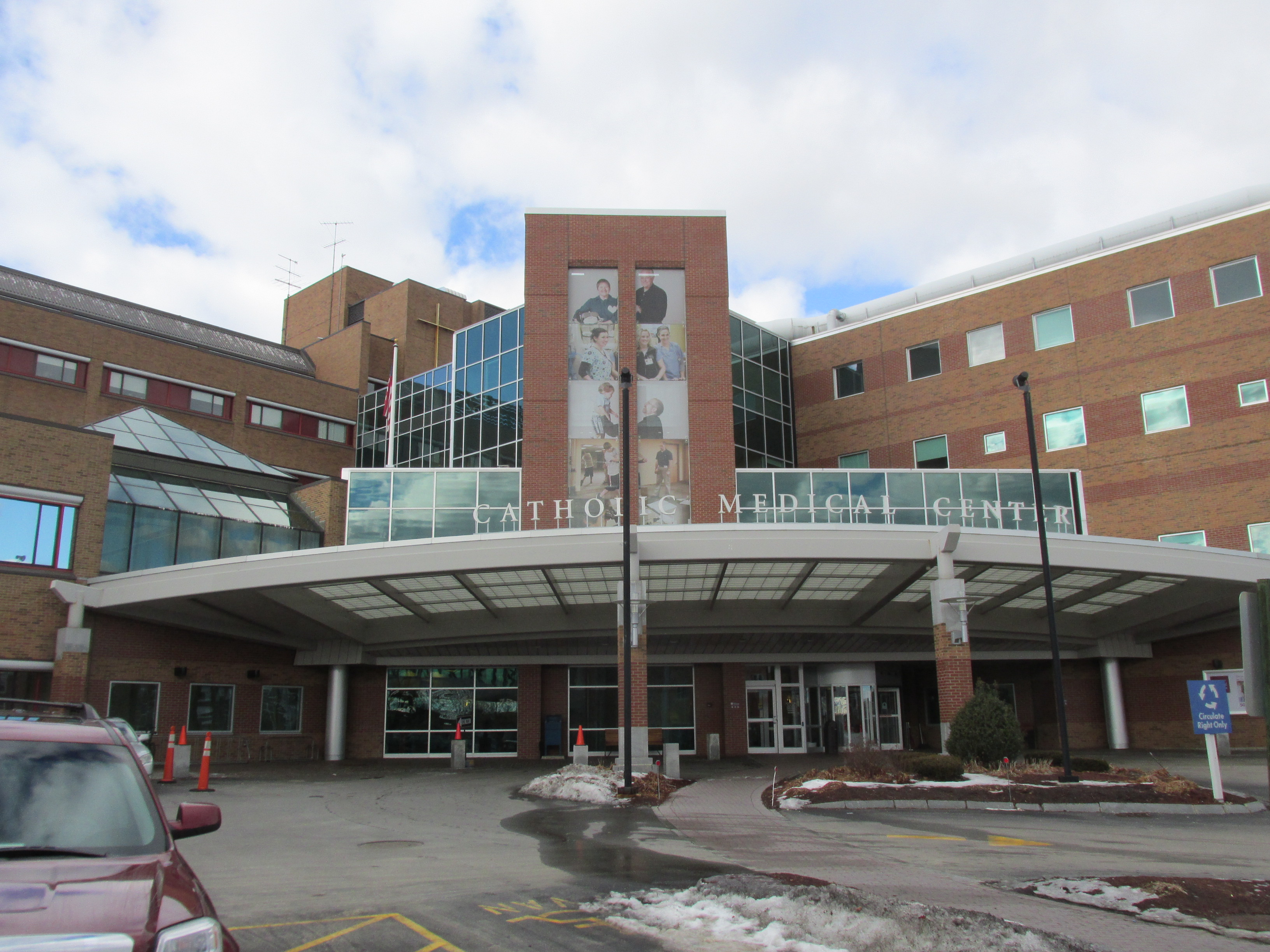 Catholic Medical Center, Manchester New Hampshire